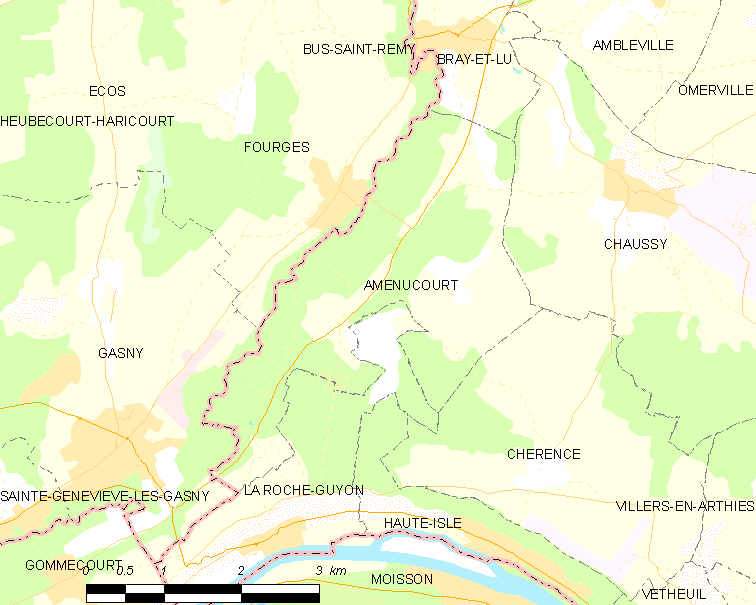 Map of French municipality Amenucourt